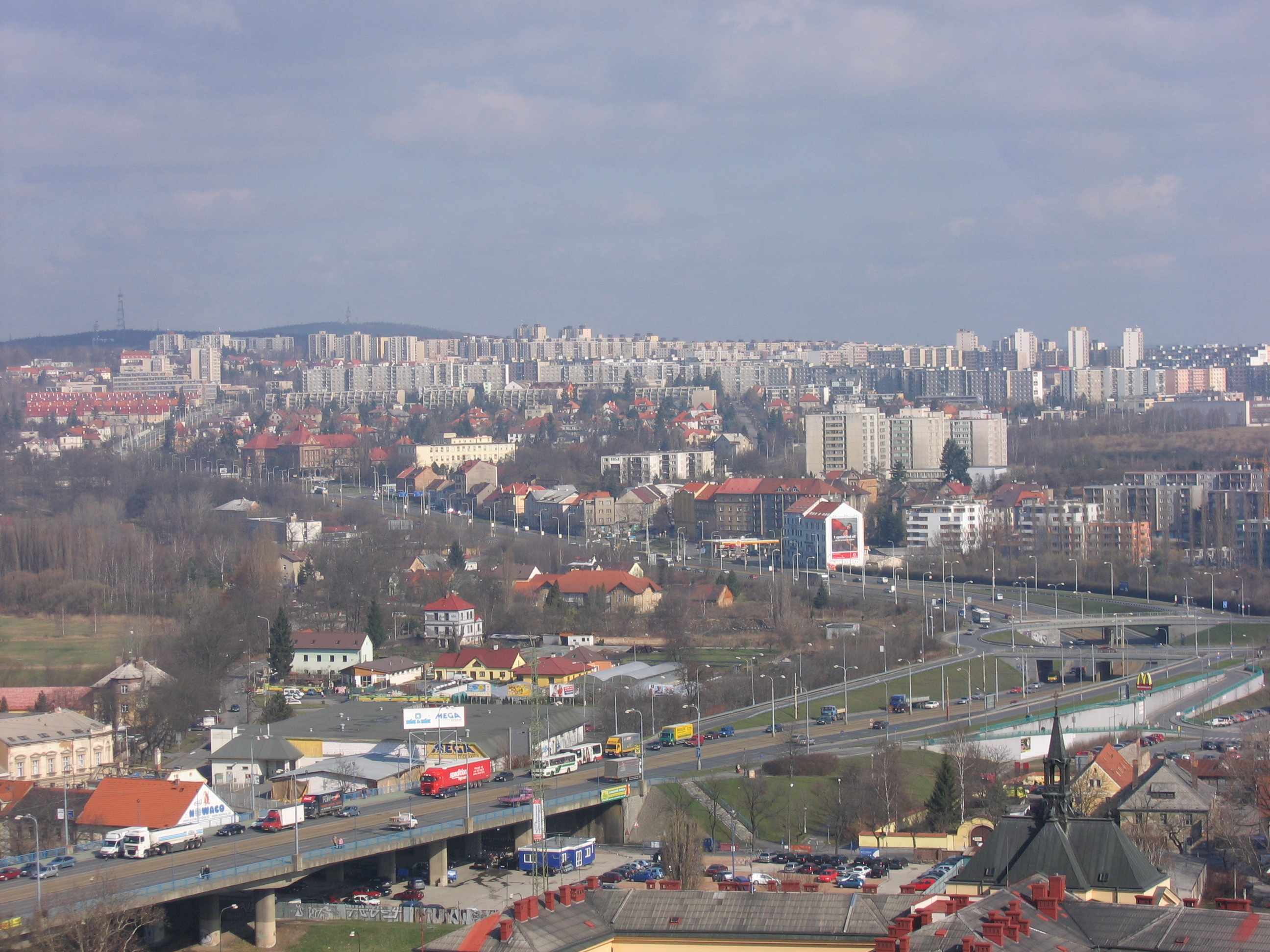 City of Plzeň, Czech Republic. Pilsen, Tschechien. View from the tower of the St. Bartholomew Church at the main square "Namesti Republiky".